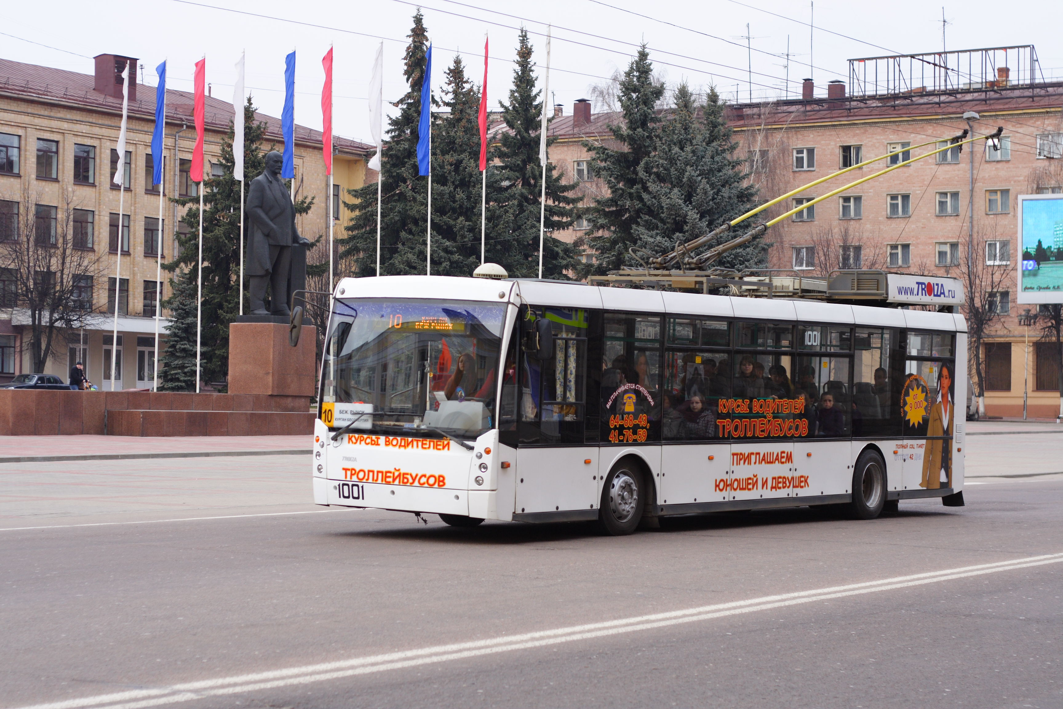 Trolleybus of model TrolZa-5265 "Megapolis" in Bryansk